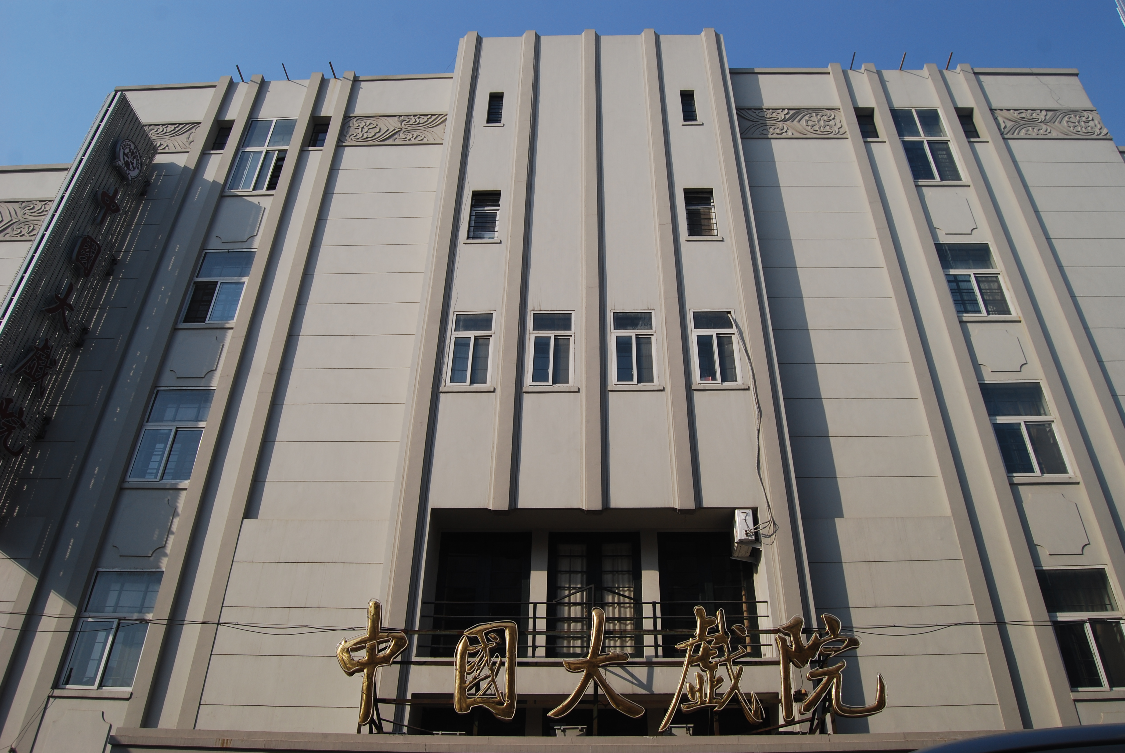 Great China Theatre, Harbin Dao No. 104, Heping District, Tianjin